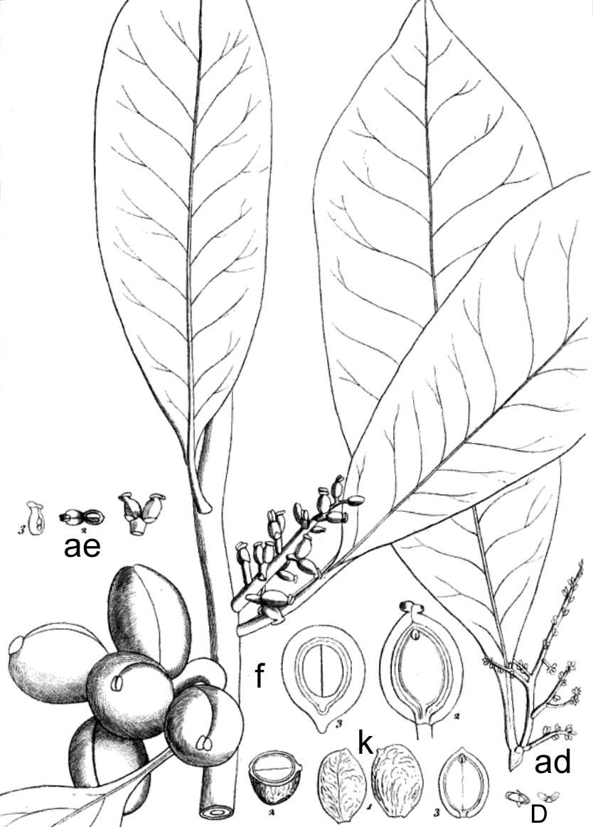 Drawing of a specimen of Didymeles: ae = pistillate (carpellate, "female") flower, natural size f = fruit, natural size k = seed, natural size ad = staminate ("male") flower, natural size D = stamens, enlarged.